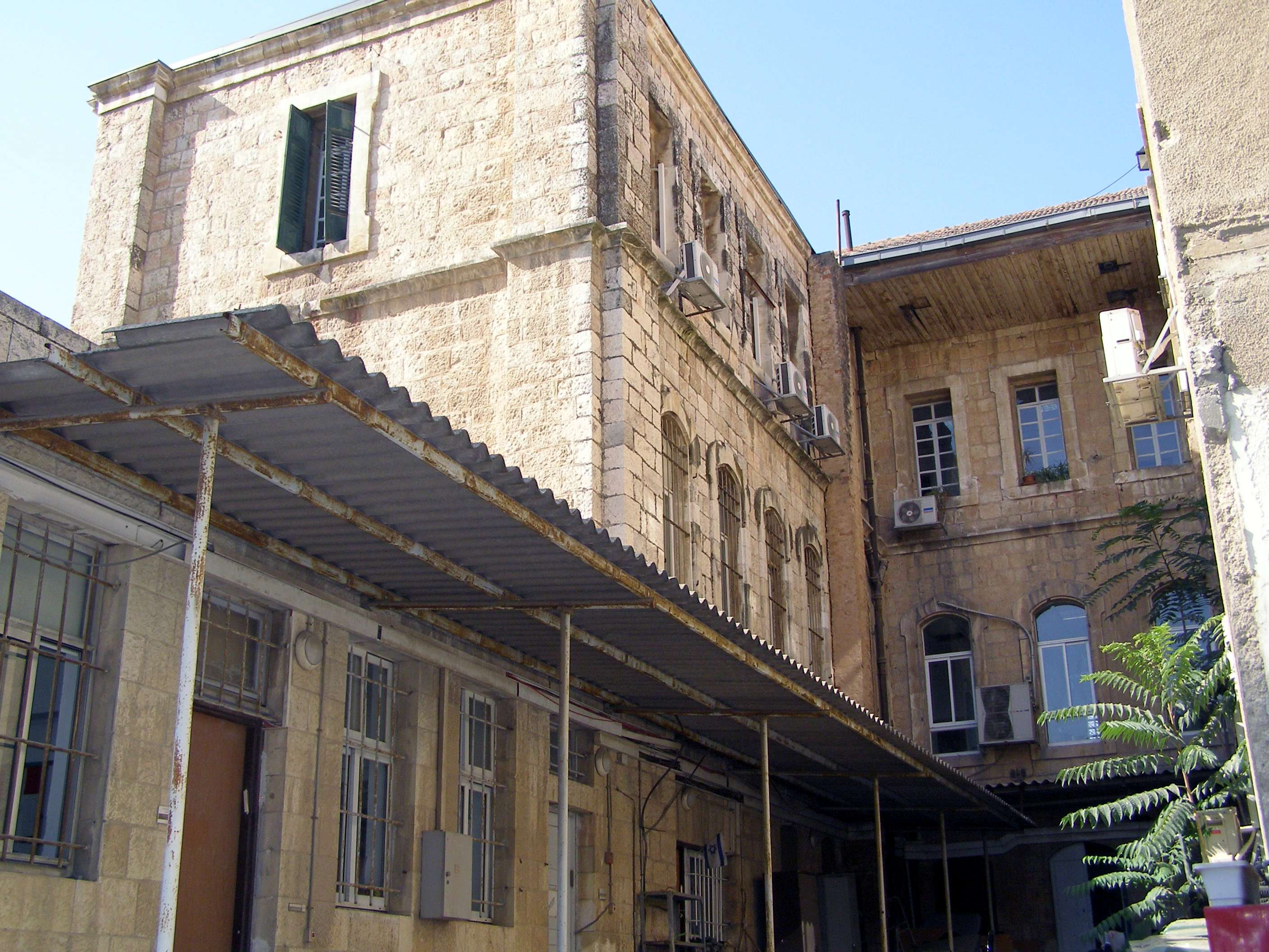 Jerusalem, Ottoman Municipal Hospital - back wing OLYMPUS DIGITAL CAMERA